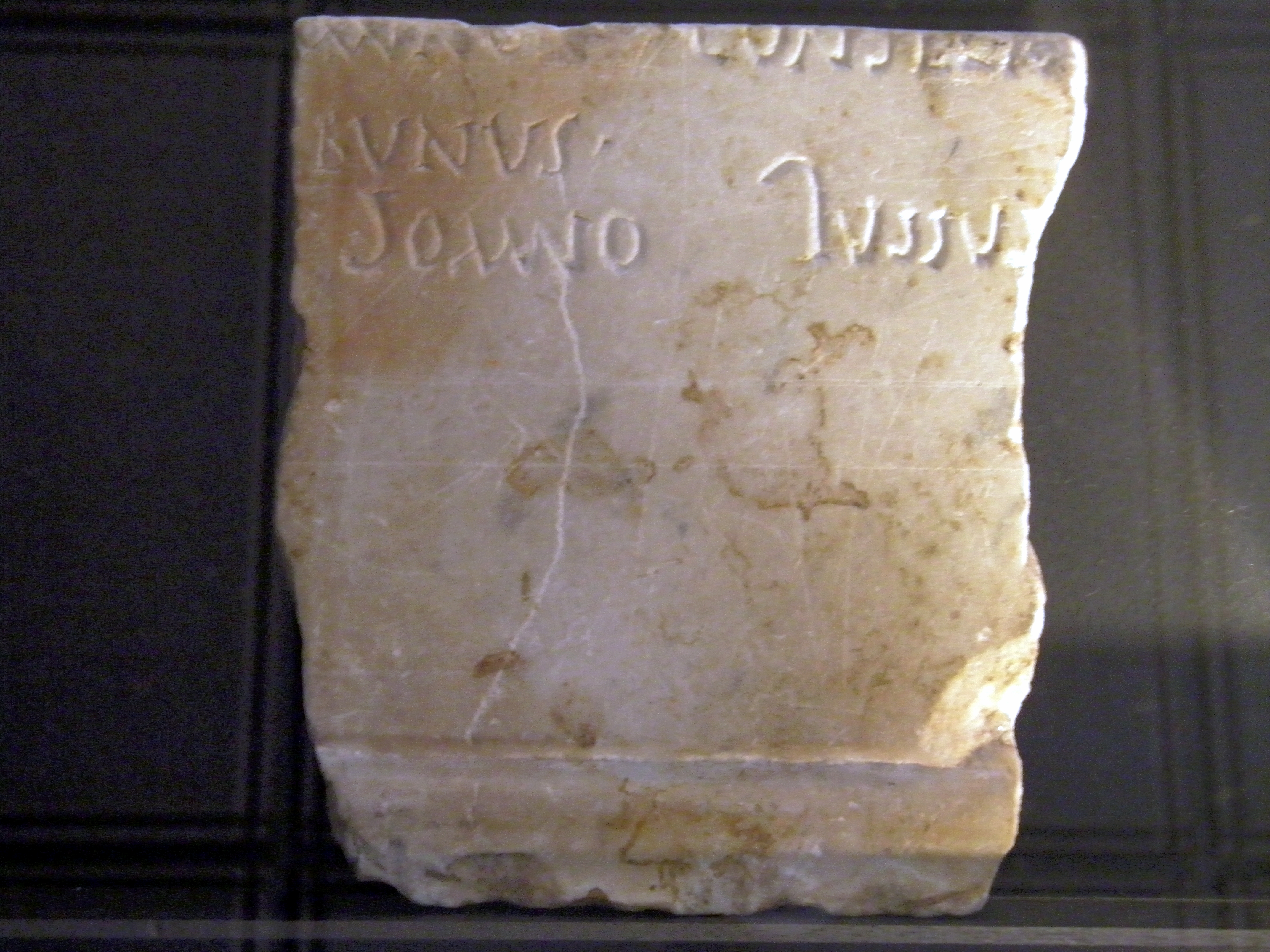 Marble inscription "SOMNO JUSSUS", Roman Grand (Andesina), France